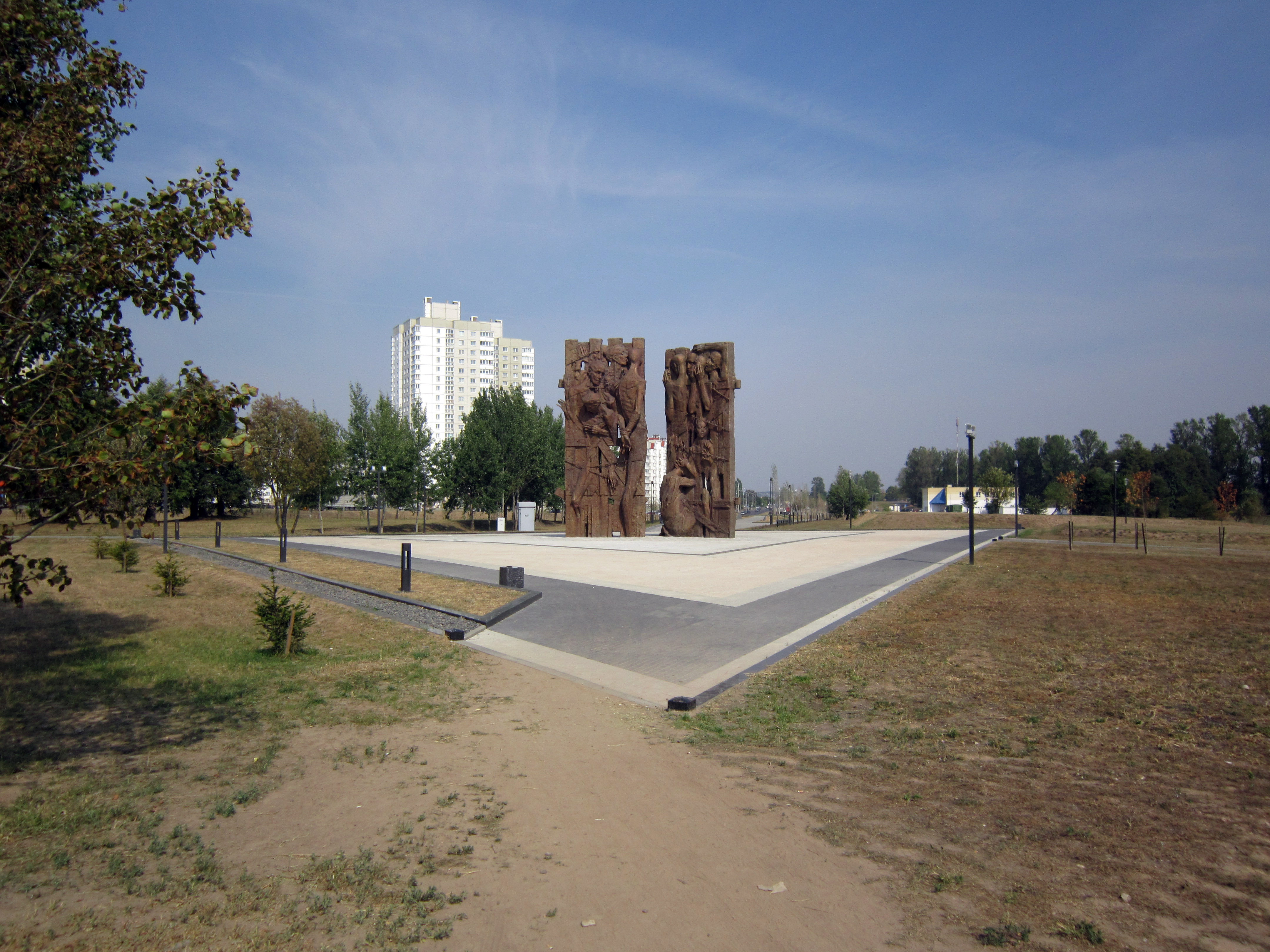 Trascianec (or Maly Trascianec or Maly Trostenets) memorial complex in Minsk, Belarus